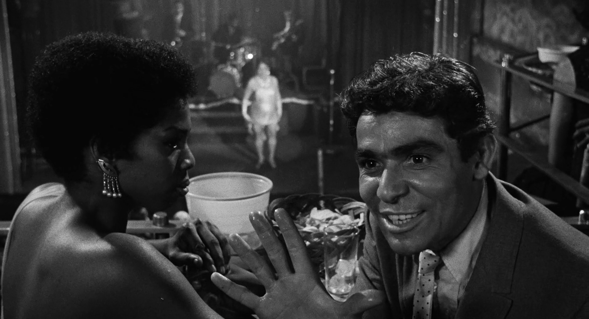 The Pawnbroker film screenshot of trailer of 1964 film.